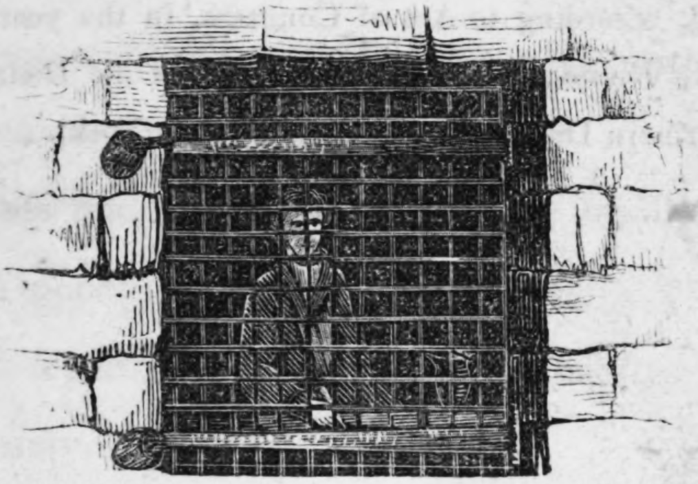 From the cover of Journal in jail (1854)